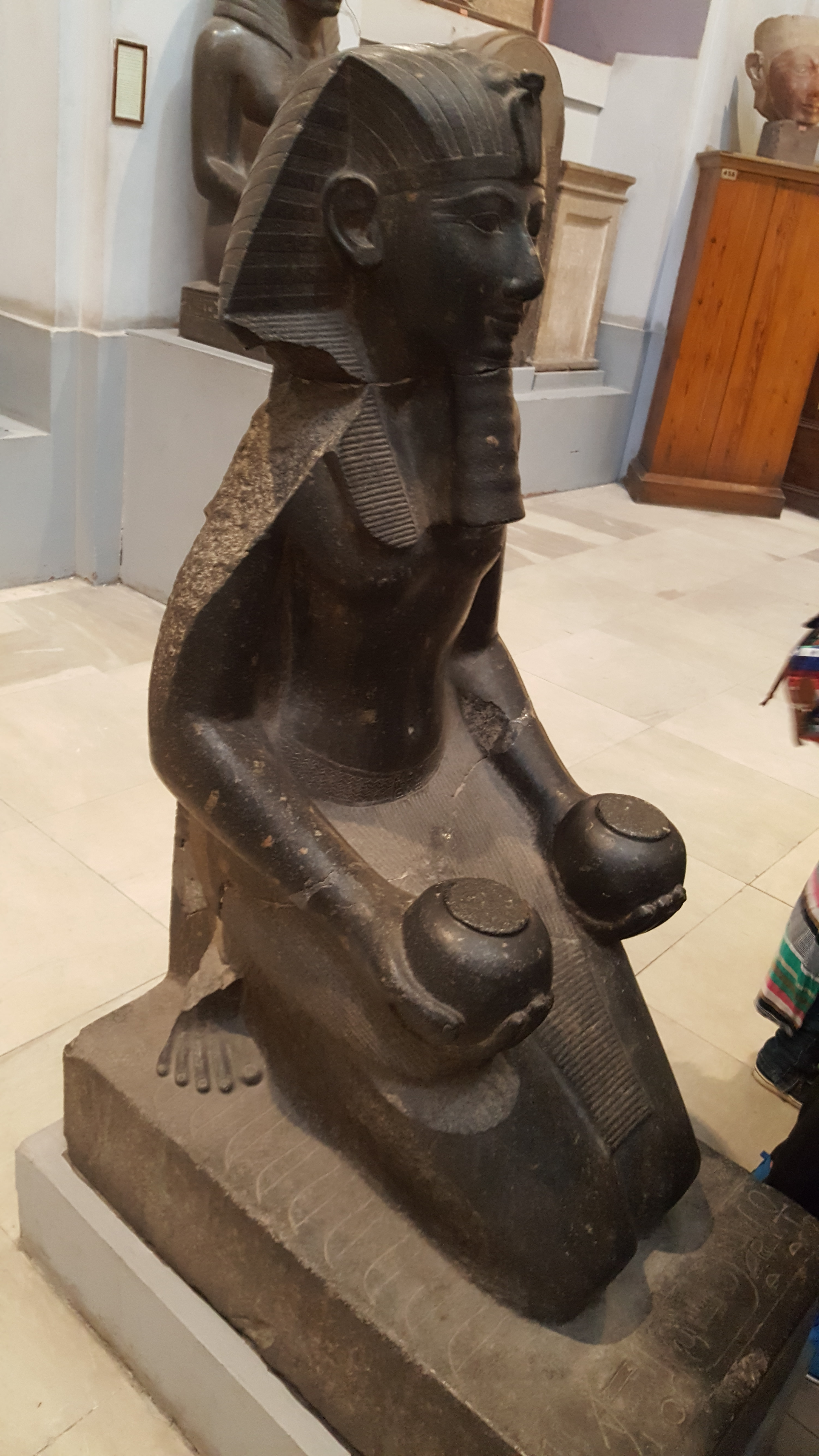 Kneeling statue of Thutmosis III, from Karnak. In Cairo, Egyptian Museum, main floor, room 12, JE 43507